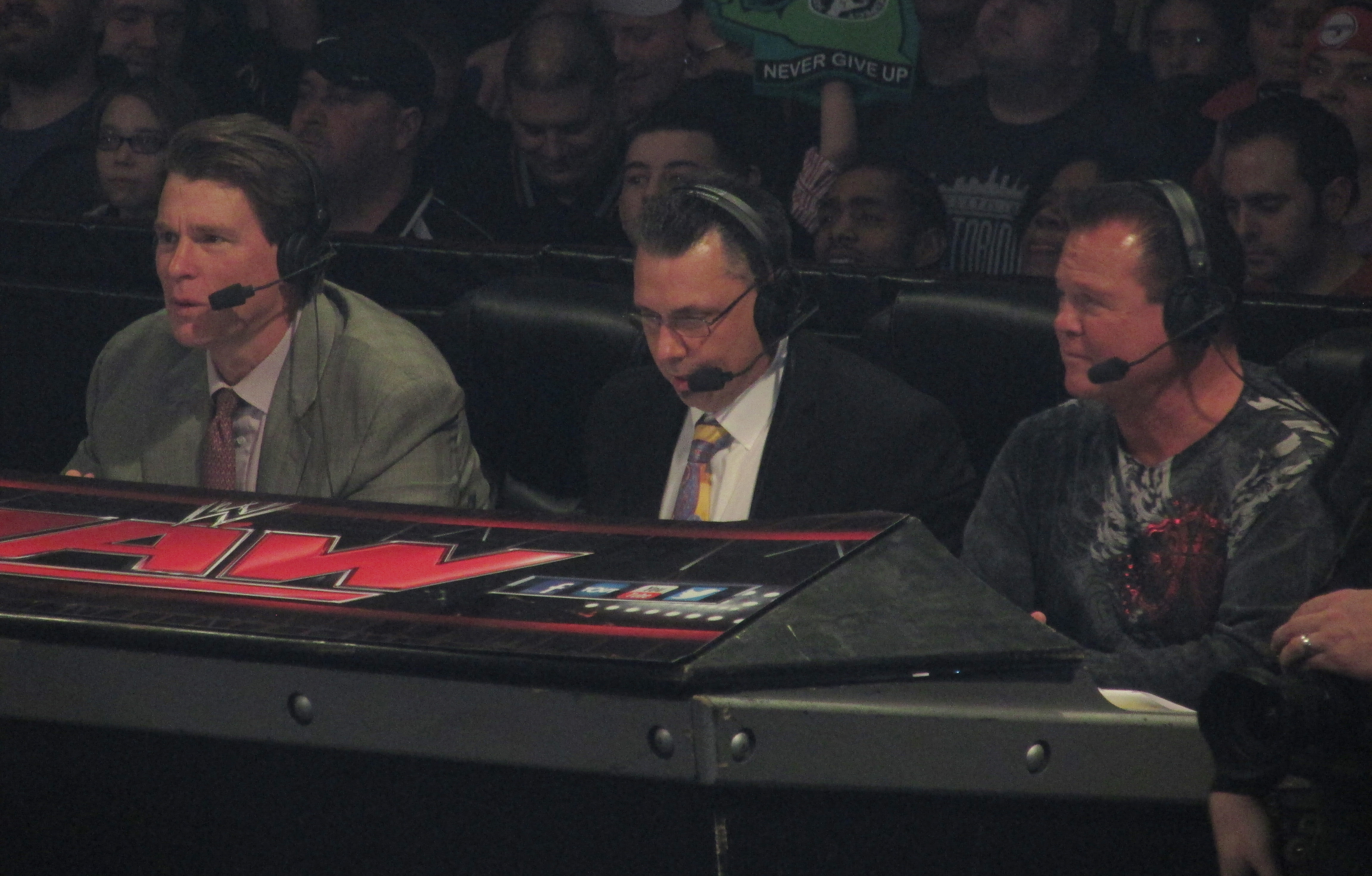 John "Bradshaw" Layfield, Michael Cole and Jerry "The King" Lawler commentating at ringside at Raw on January 27, 2014.